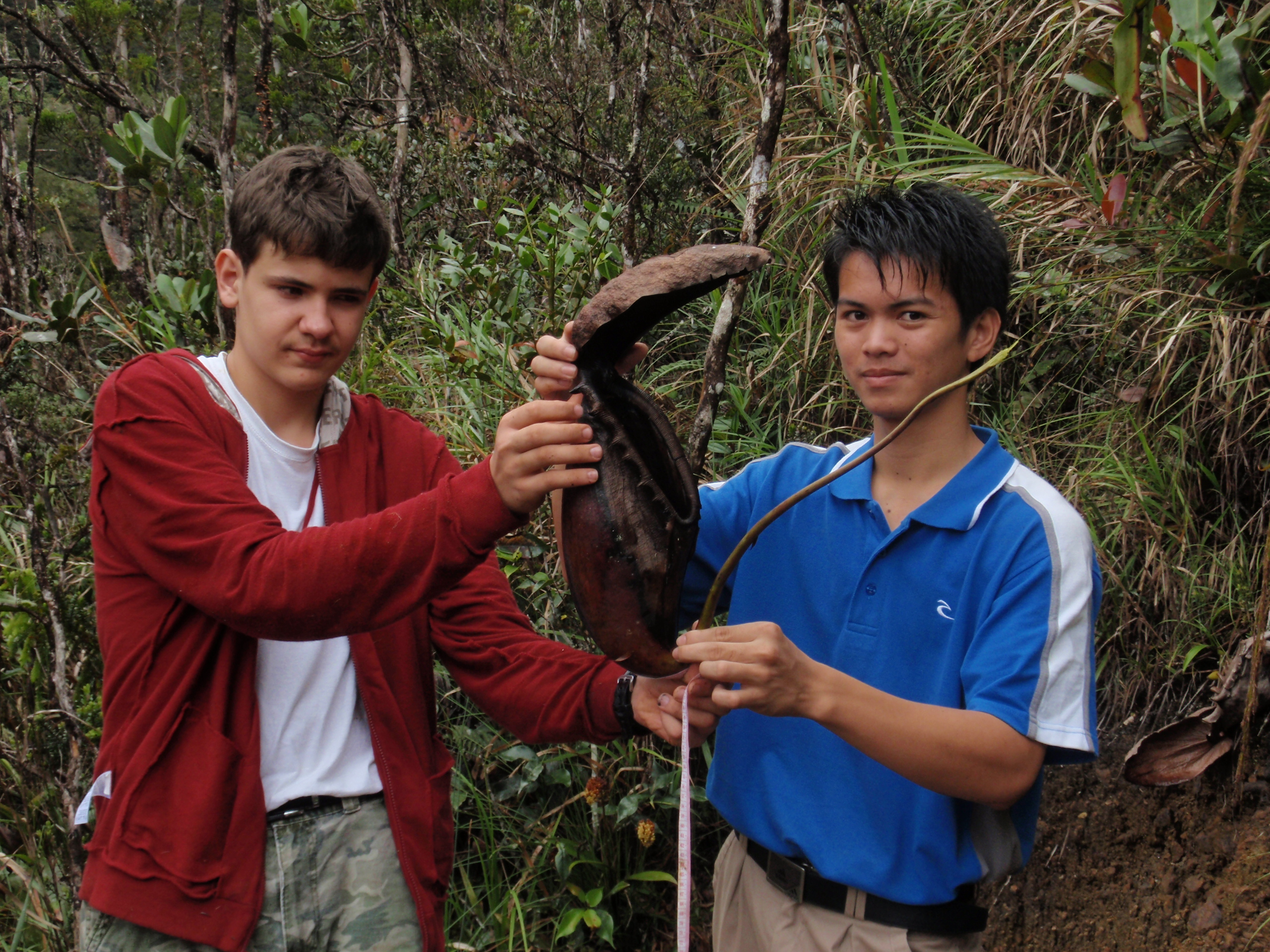 Largest recorded Nepenthes rajah pitcher, measuring 41 cm. It was found on March 26, 2011, during a trip to Mesilau organised by The Sabah Society.